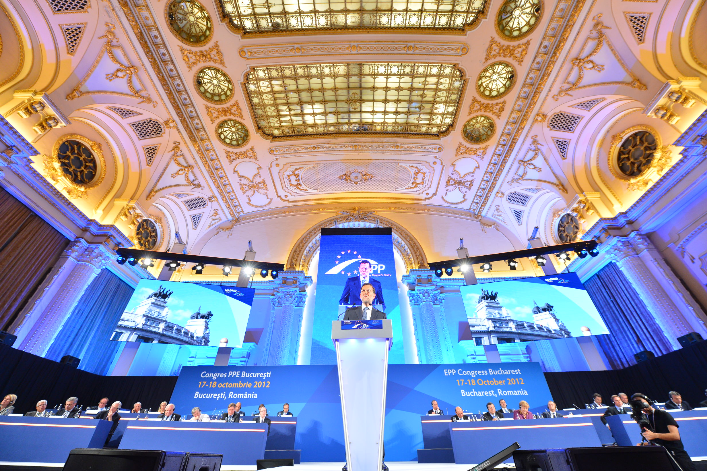 EPP_Congress_4145